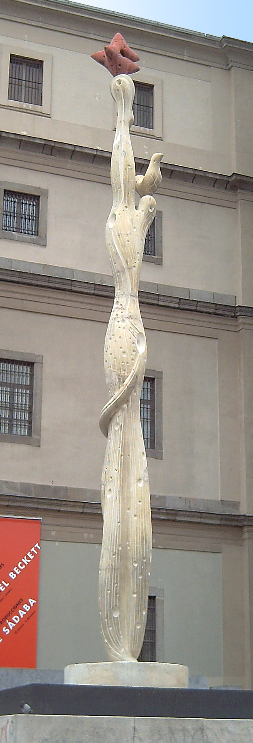 El pueblo español tiene un camino que conduce a una estrella ("The Spanish People have a Path that Leads to a Star"). Outside the Queen Sofia Museum (Madrid, Spain). Replica of the sculpture made by Alberto Sánchez Pérez (1895–1962) in 1937 and destroyed later on.